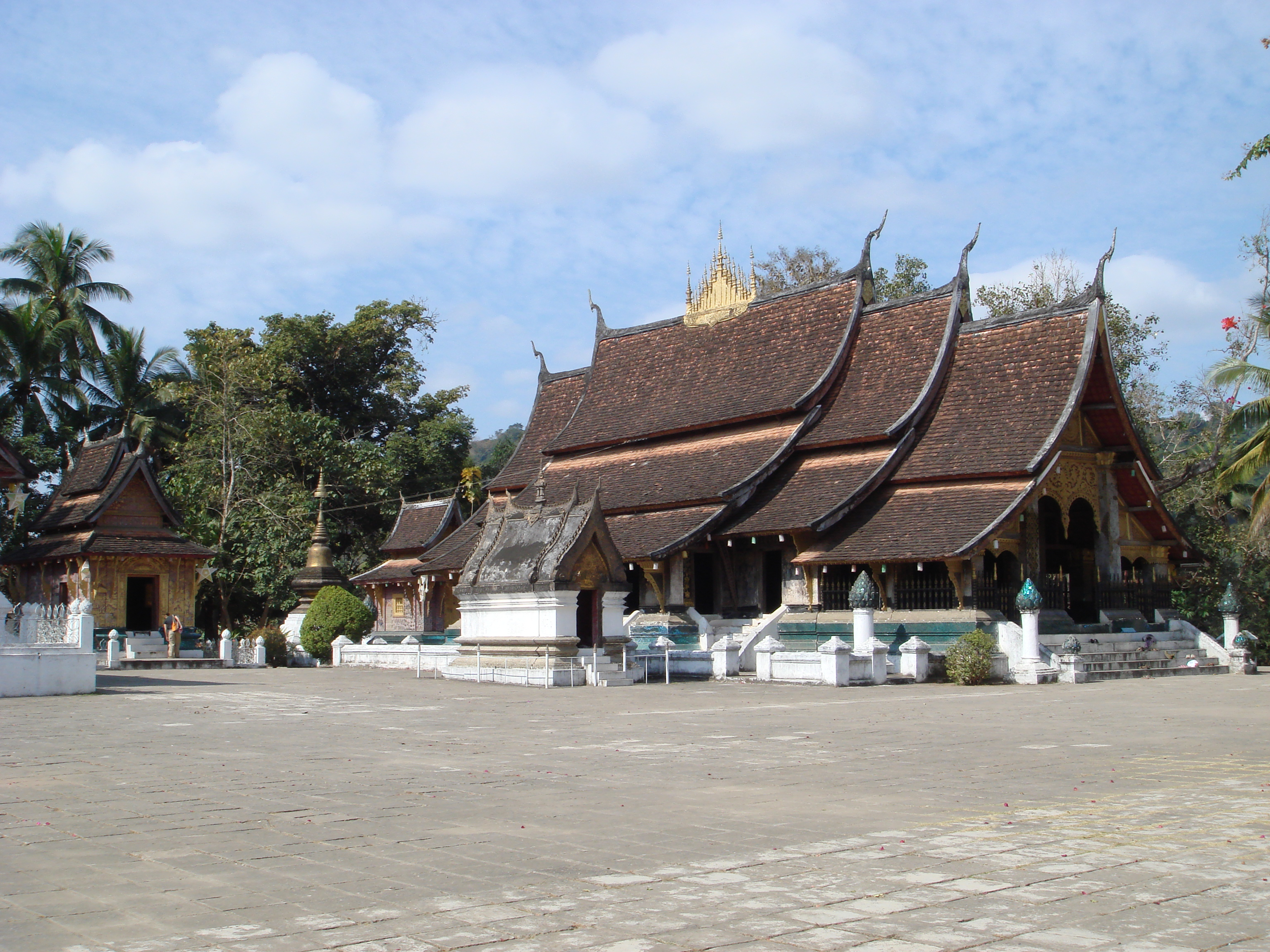 Wat Xieng Thong monastery and La Chapelle Rouge in Luang Prabang (Luang Prabang Province, Laos).